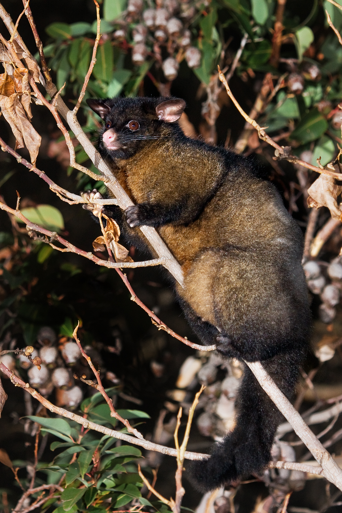 Common Brushtail Possum (Trichosurus vulpecula), brown form, Austin's Ferry, Tasmania, Australia